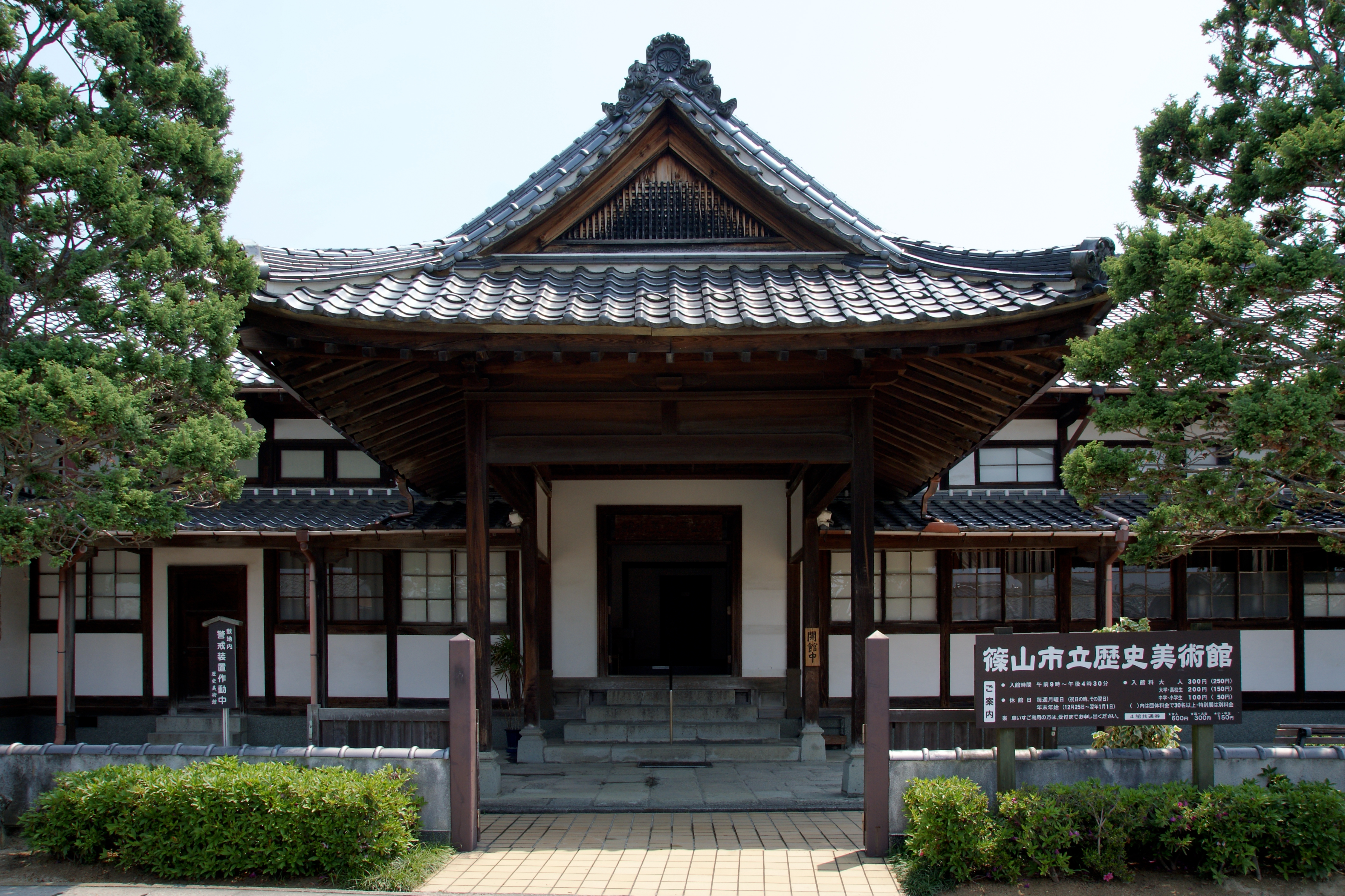 Sasayama Municipal Museum of History in Sasayama, Hyogo prefecture, Japan